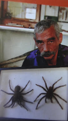 Charles J. Seiderman-discoveror.Theraphosa Apophysis-1990-Puerto Ayacucho,Venezuela-(photo)Scion Magazine-2007 Fall / Winter